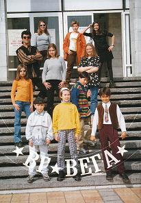 Vocal Studio "Vega"